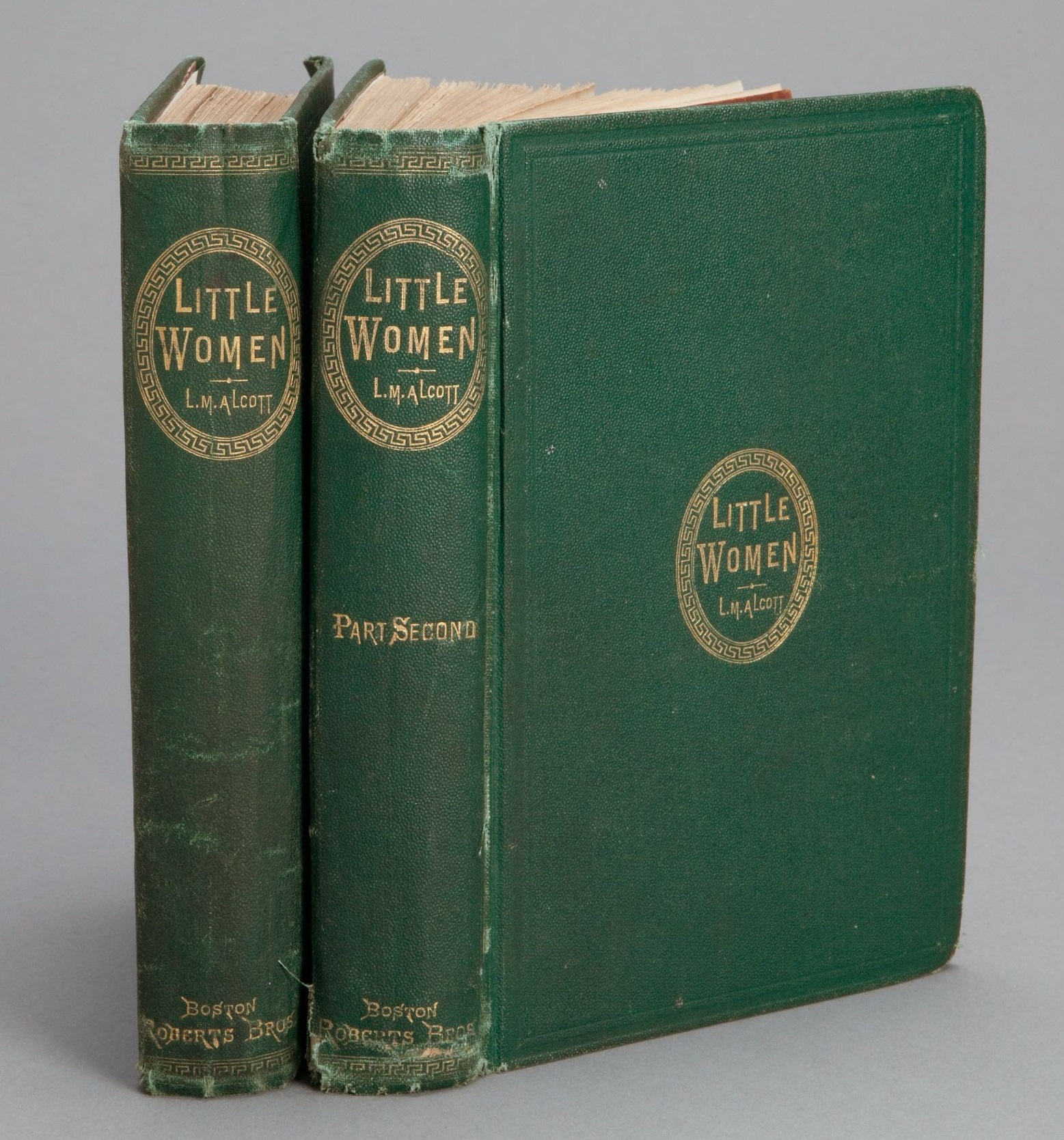 Both volumes of Little Women (volume 1: 1868, volume 2: 1869), by Louisa May Alcott (1832-1888). Boston: Roberts Brothers, 1868-1869. *AC85.Aℓ194L.1869 pt.2aa, Houghton Library, Harvard University